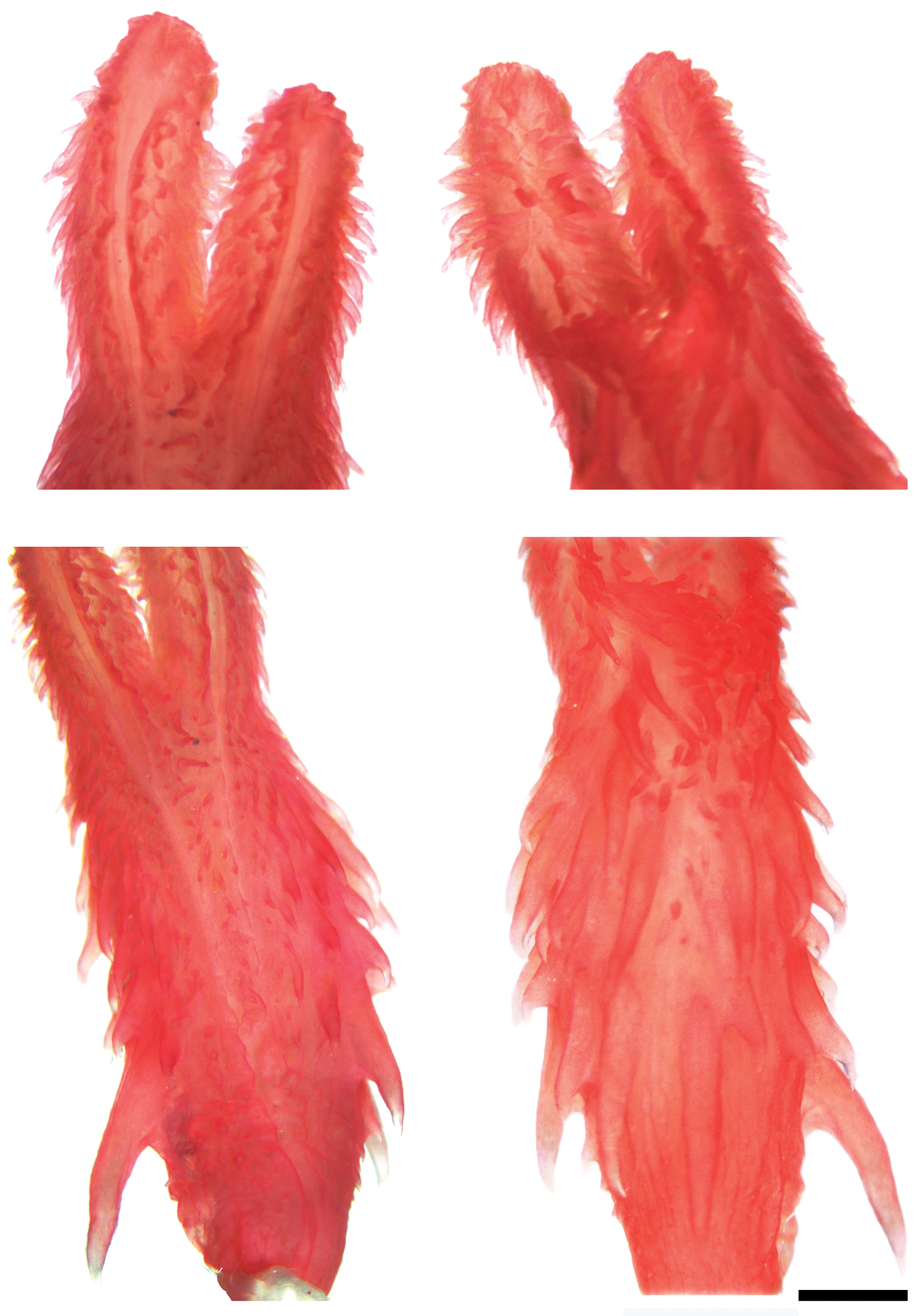 Right hemipenis of Synophis bogerti sp. n. (QCAZ 12791, holotype). Distal end in sulcal (upper left) and asulcal (upper right) views; body in sulcal (lower left) and asulcal (lower right) views. Scale bar = 1 mm.